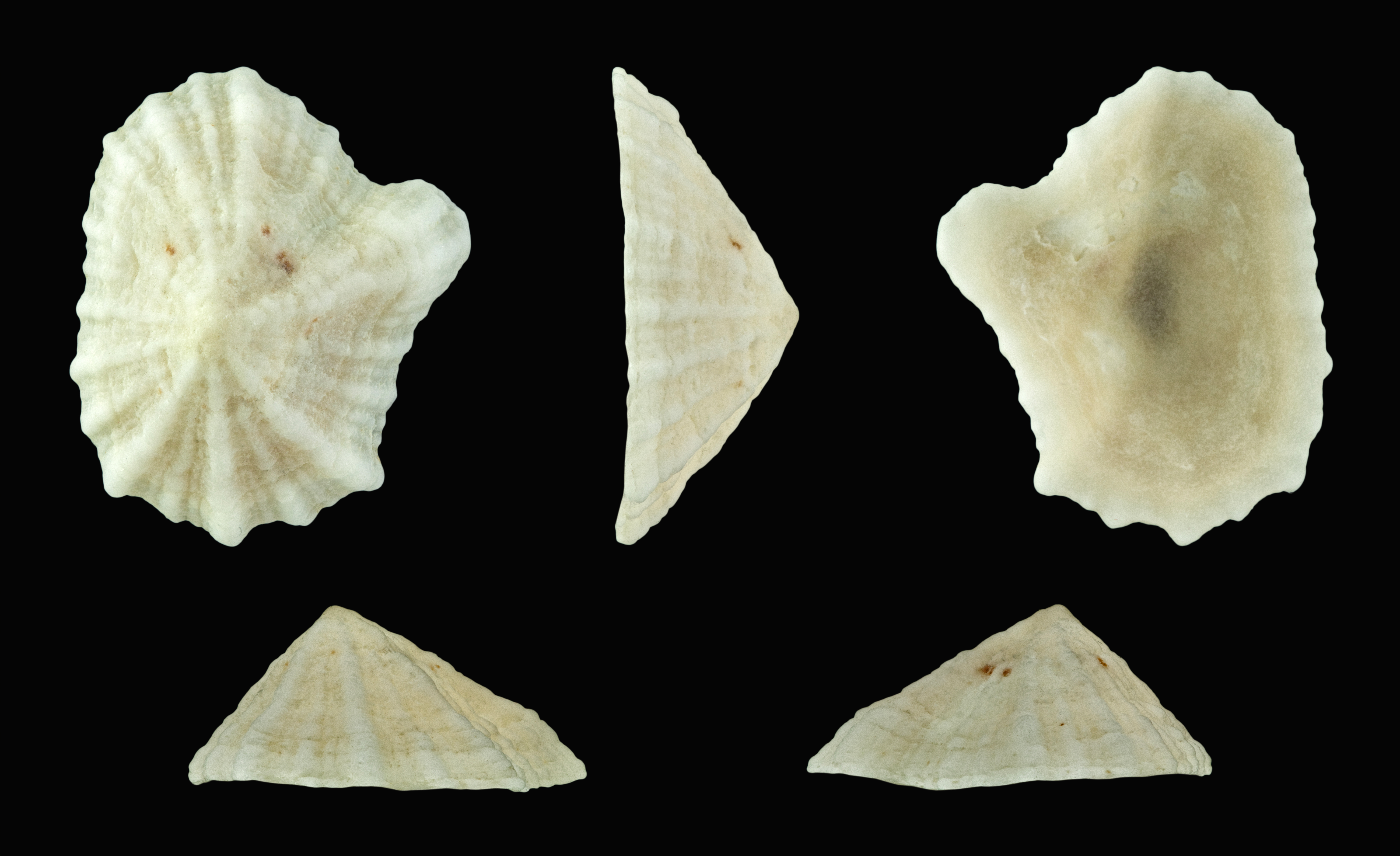 Siphonaria savignyi Krauss, 1848; Length 1.4 cm; Originating from the Red Sea, Gulf of Aqaba, Tabuk Region , Saudi Arabia; Shell of own collection, therefore not geocoded.